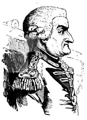 Patrick Murray, 5th Lord Elibank (1703-1778). Author and economist.